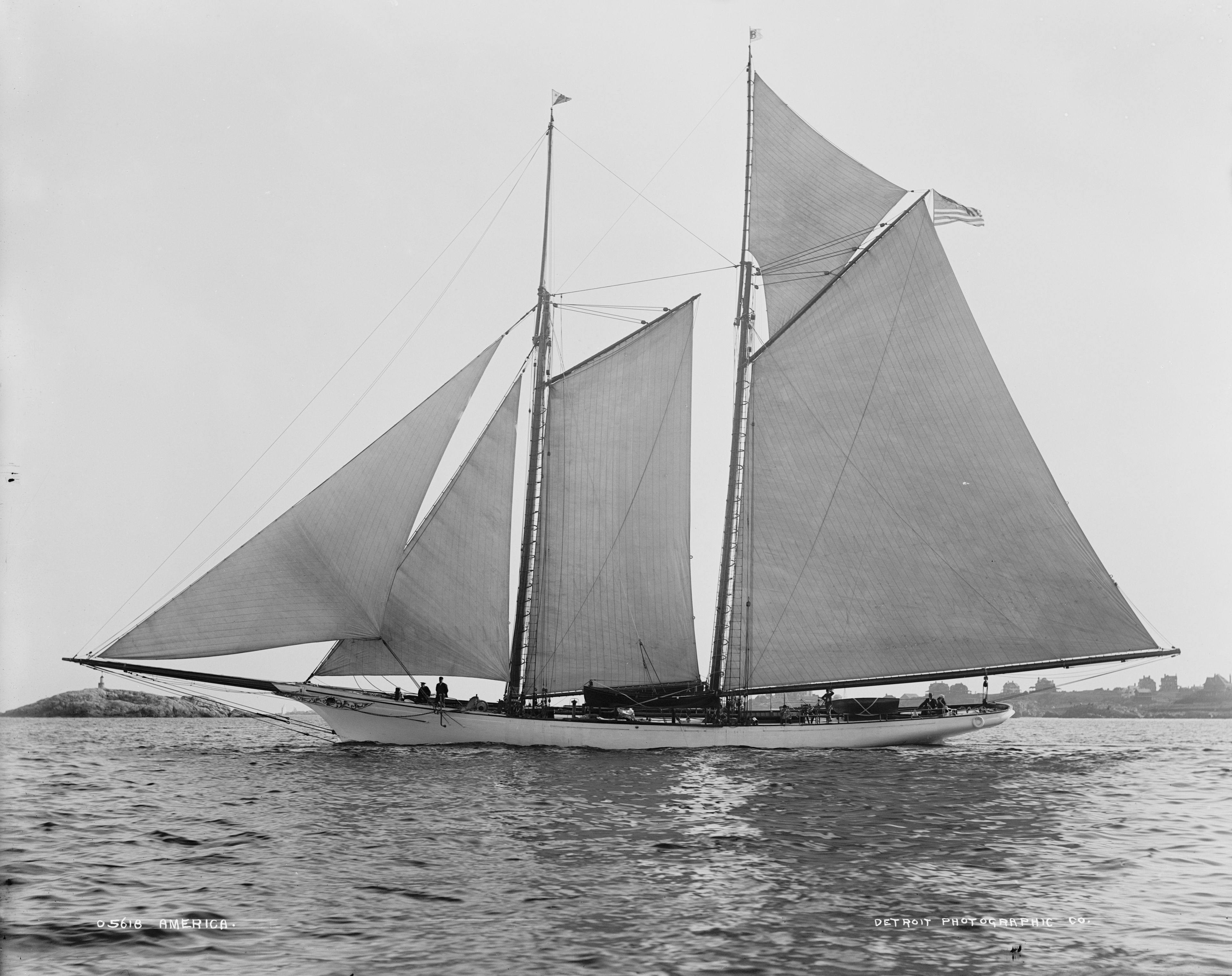 the yankee schooner AmericaNote that this is not America's rig as that with which she won the £100 Cup in 1851: Donald McKay and Edward Burgess refitted her in 1875 and 1885 respectively. By 1887, the rake in her masts was reduced, all her spars were lengthened, she featured a lead keel and carried two extra headsails and a fore gaff topsail. An enlarged rig and modernised build would have kept the ageing America competitive in the light yankee airs.